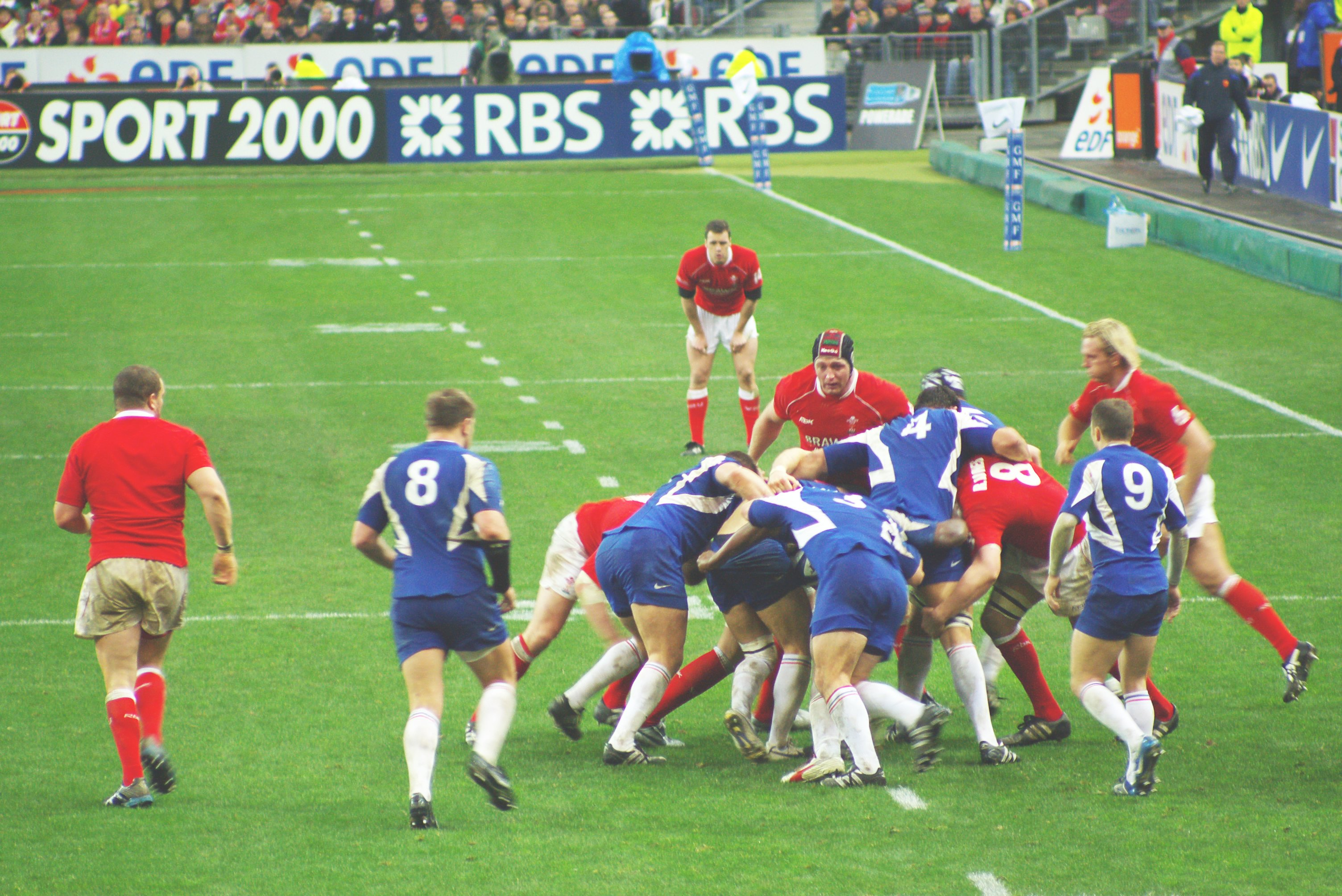 Pictures from the rugby game France vs Wales for 6 Nations 2007 which took place in Stade de France, Paris, 24/02/2007.